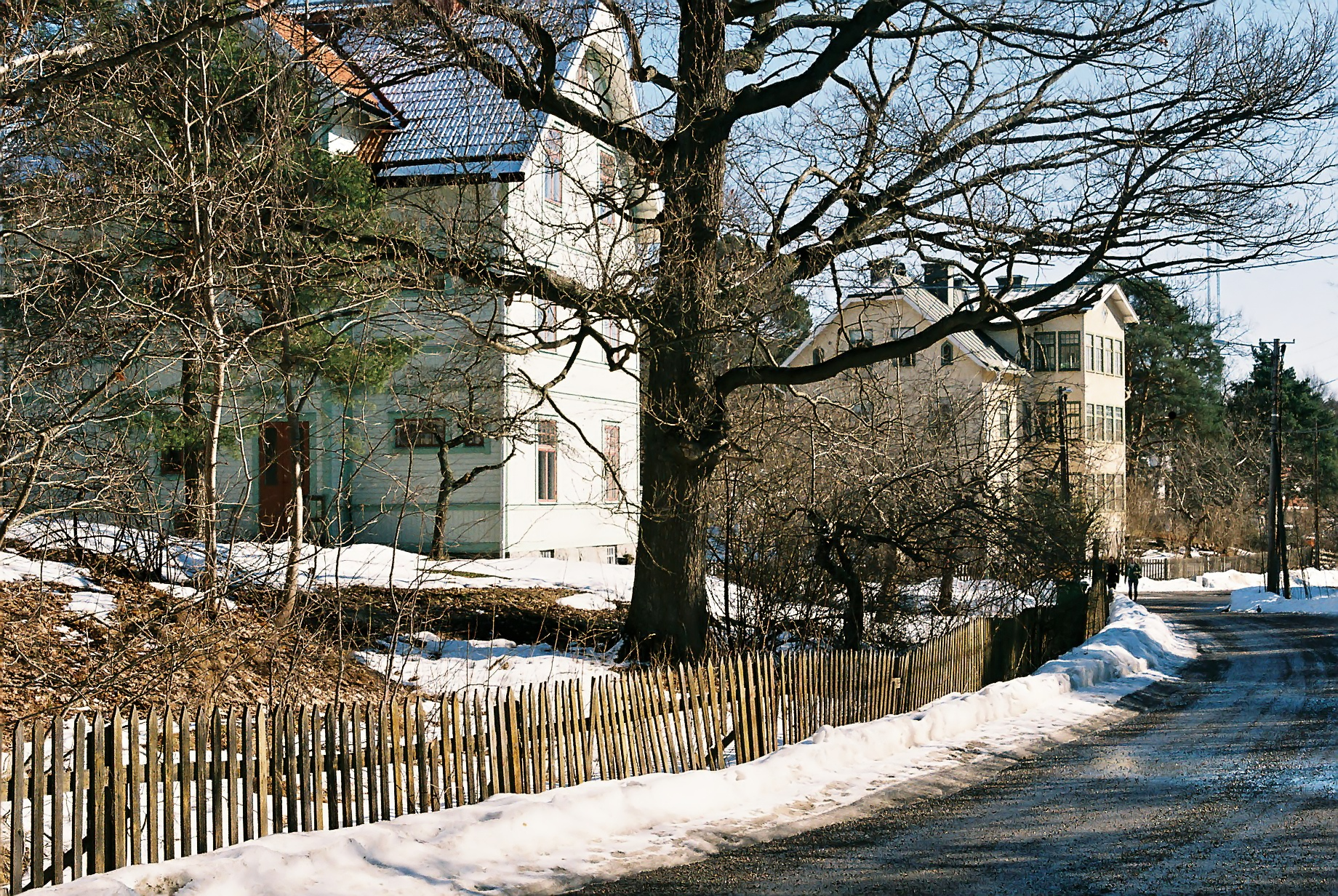 Birka, Nacka kommun.